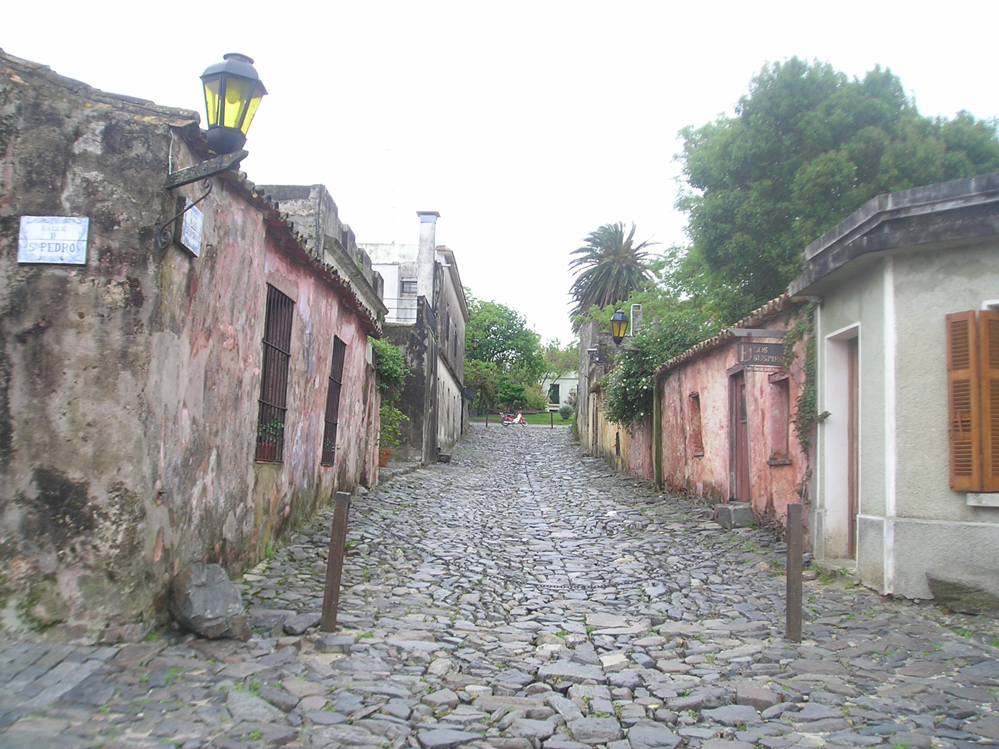 Calle de los Suspiros (Street of Sighs) in historical part of Colonia del Sacramento (now in Uruguay). This street is known for its original pavement preserved and buildings from the first colonial period.